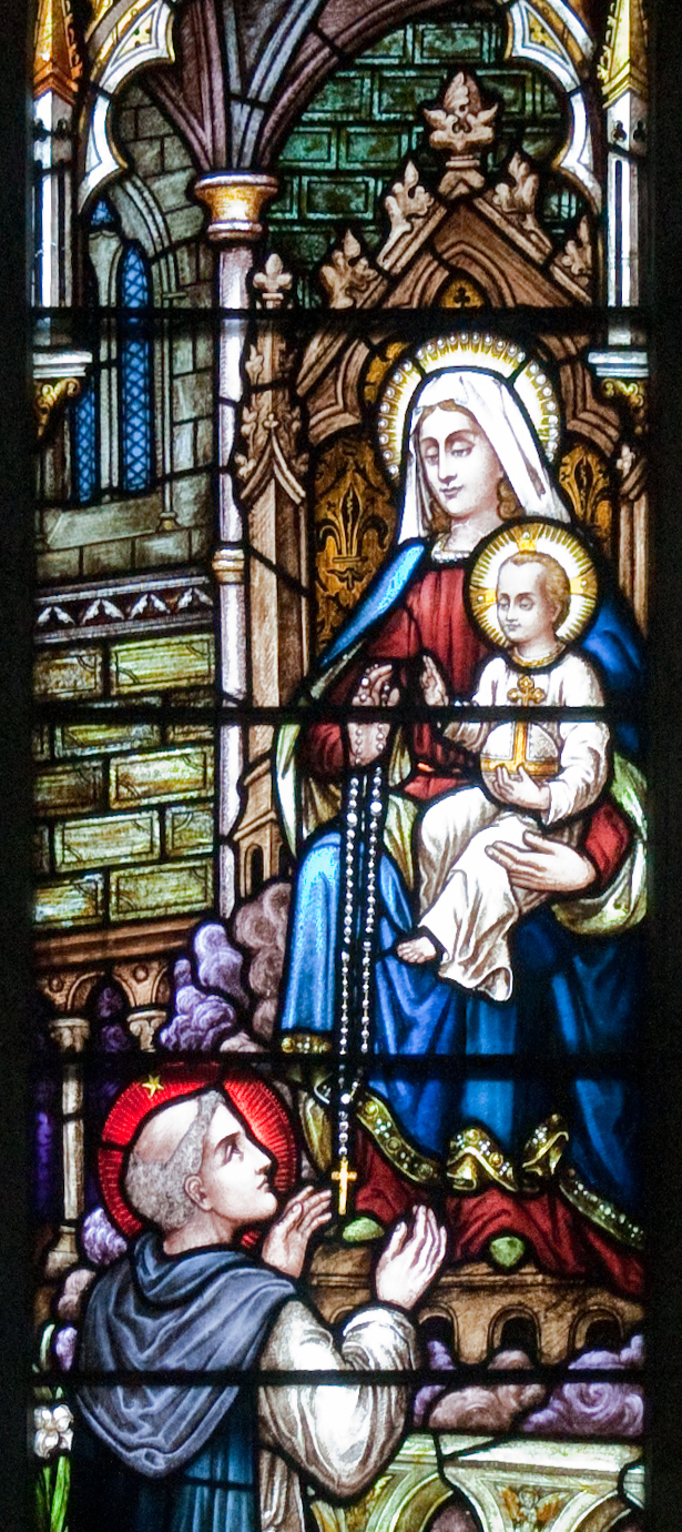 Detail of right east window in the Church of the Sacred Heart in Glengarriff, showing how the rosary was given to St Dominic in an apparition by the Blessed Virgin Mary in the year 1214. Created by Messrs. Watson and Co. Youghal.